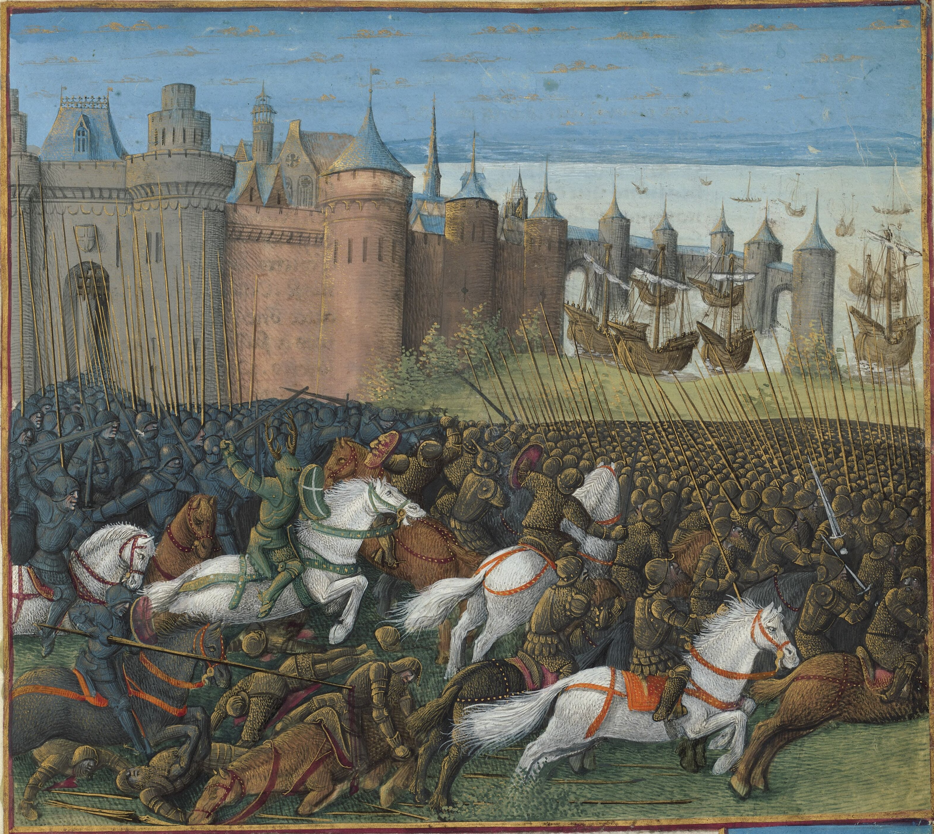 Miniature: Battle of Tyre, 1187